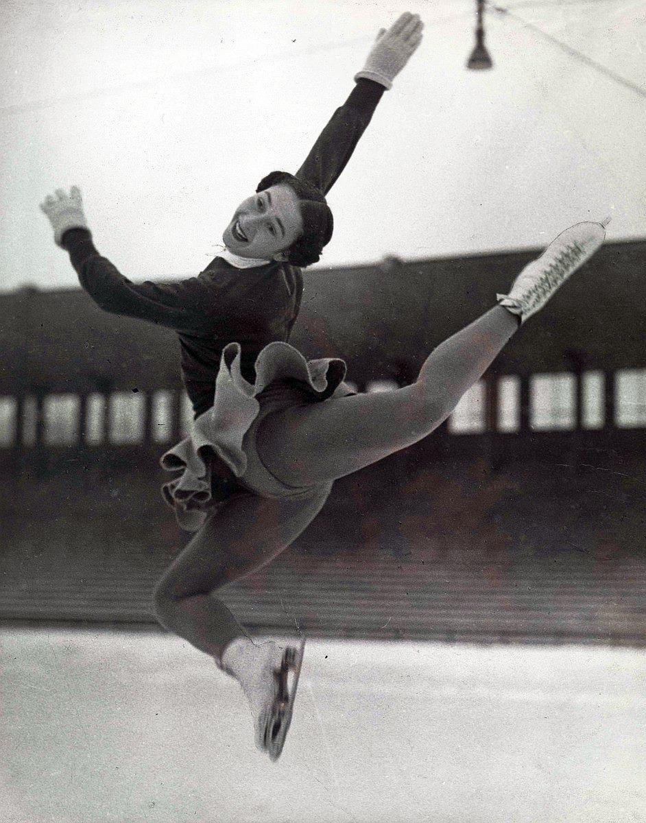 Jacqueline du Bief (born 4 December 1930 in Paris) is a French figure skater who competed in single skating and pair skating